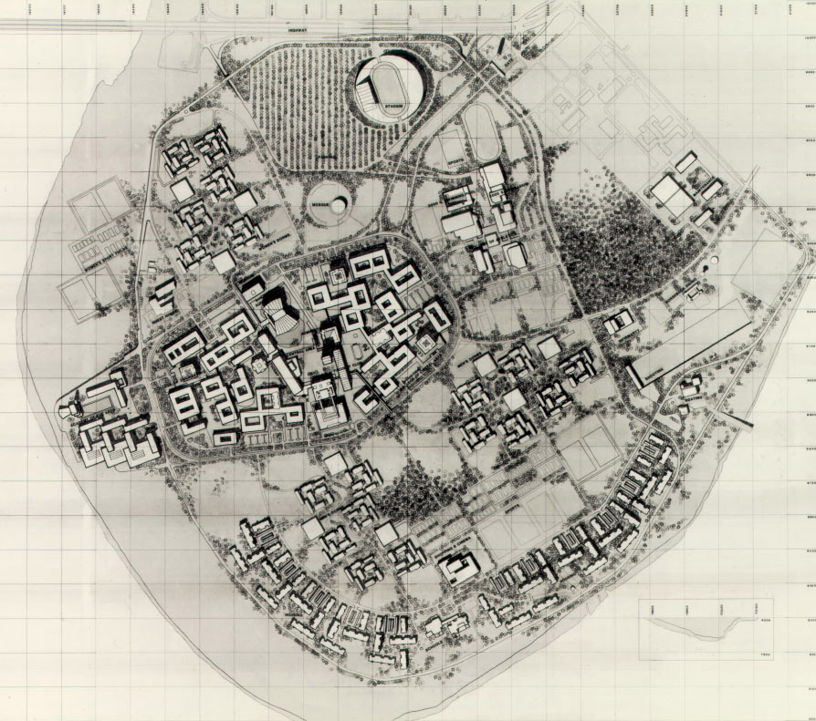 Site Drawings for the University of Baghdad, by architect Hisham